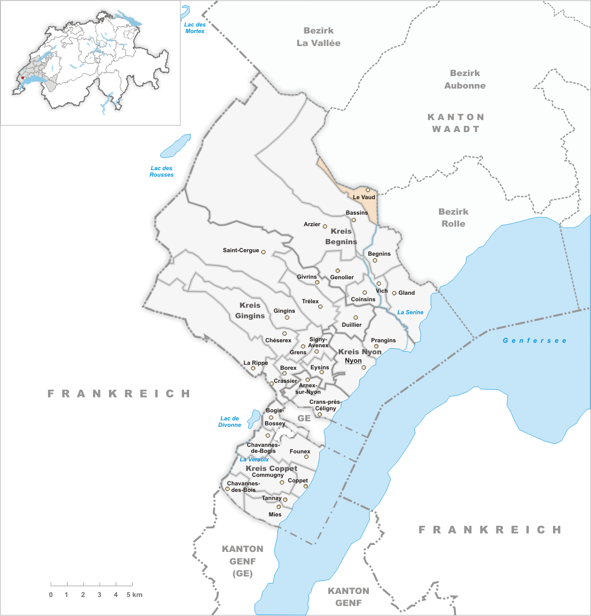 Municipality Le Vaud